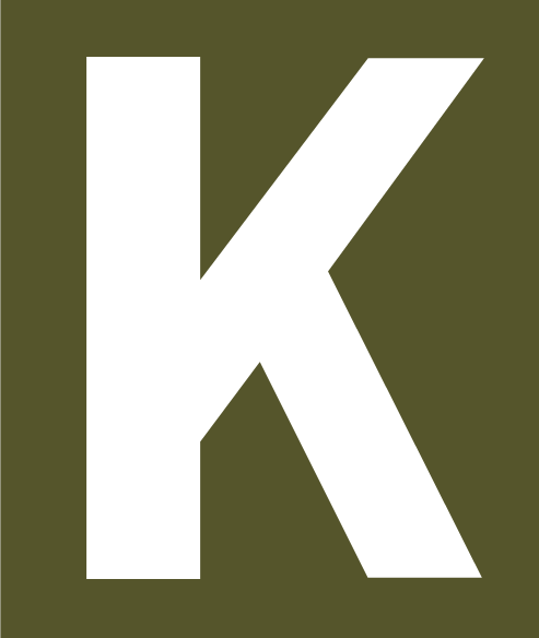 Insignia of the German First Panzer Army